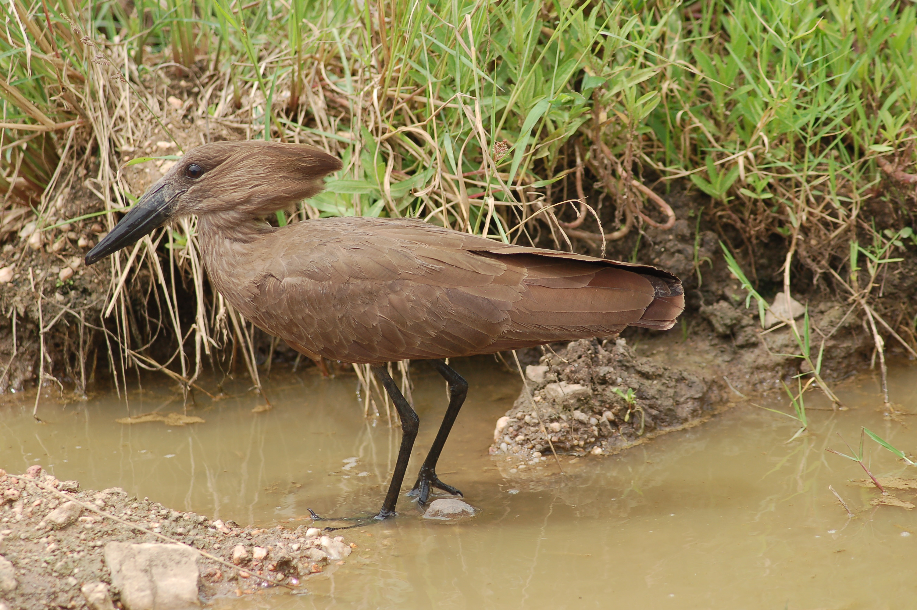 A Hamerkop in Serengeti, Tanzania.